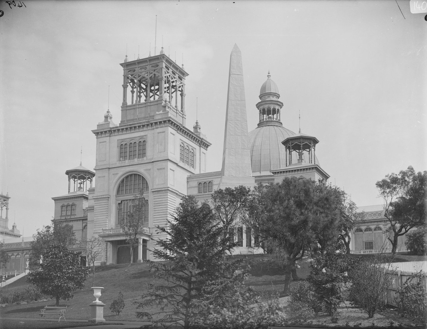 The Garden Palace [NRS 4481 SH1409] On September 22nd 1882 the Garden Palace fire occurred. The Garden Palace was built in only eight months to house the Sydney International Exhibition in 1879 in the southwestern end of the Royal Botanic Gardens. At the time of the fire a number of government departments housed records in the Palace so that when fire completely engulfed the timber building a number of significant documents, such as the 1881 Census, were destroyed. » View the Garden Palace Fire Gallery (photos and documents including a report by the night watchman) Rights: No known copyright restrictions We'd love to hear from you if you use our photos. Many other photos in our collection are available to view and browse on our website using Photo Investigator.